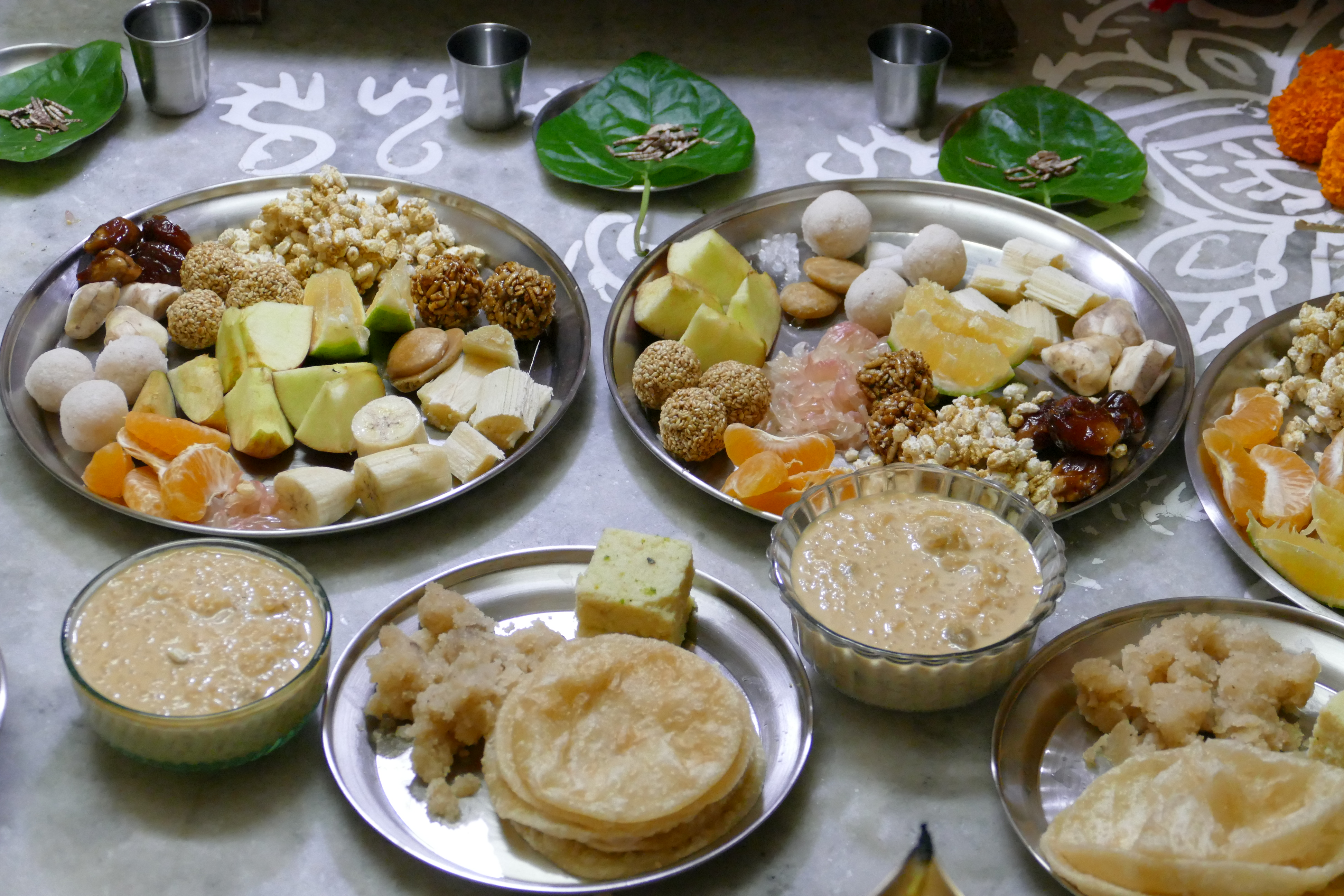 Food offered to the goddess Lakshmi